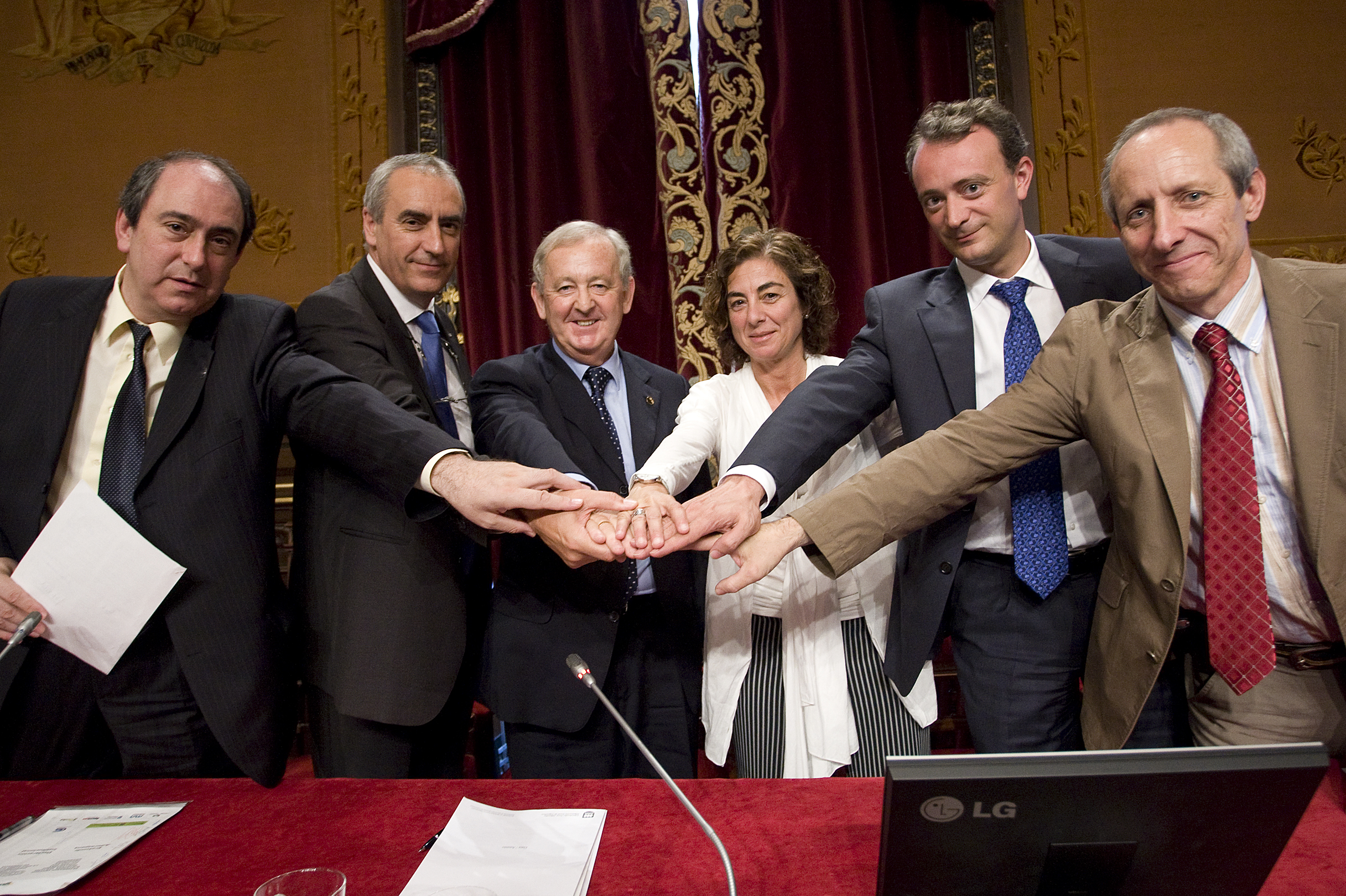 Declaración Institucional GAZE